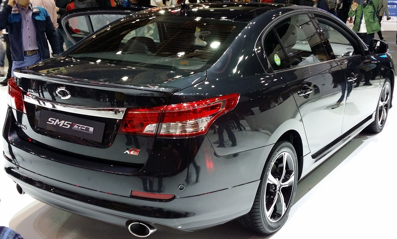 Renault Samsung SM5 Nova